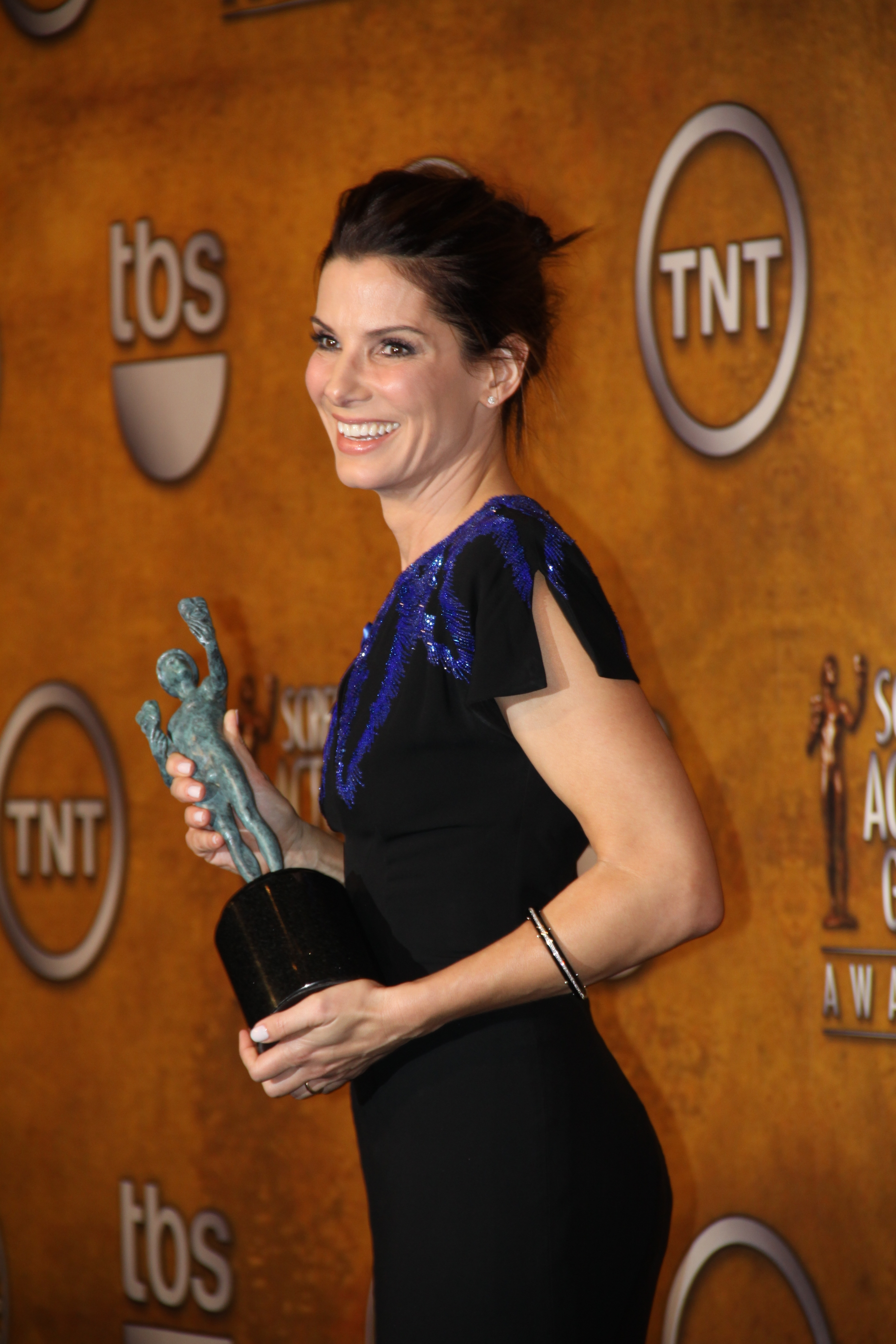 Sandra Bullock, winner of the 2010 SAG award for Outstanding Performance by a Female Actor in a Leading Role for her role as Leigh Anne Tuohy in the film "Blind Side".